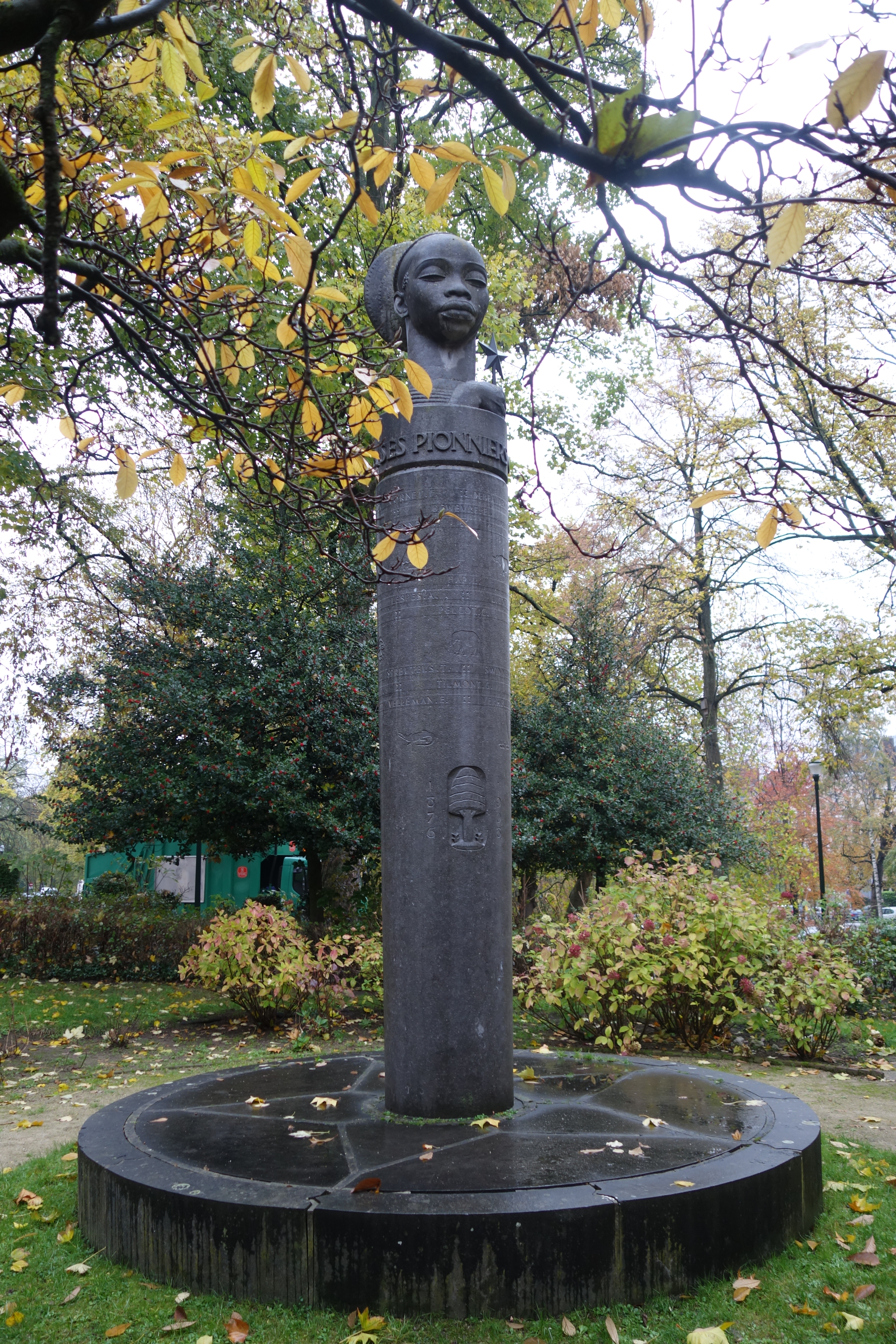 Ixelles colonial memorial